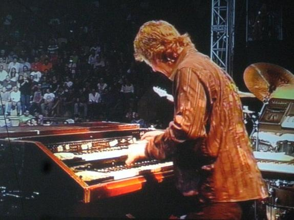 Don Airey performing in Israel